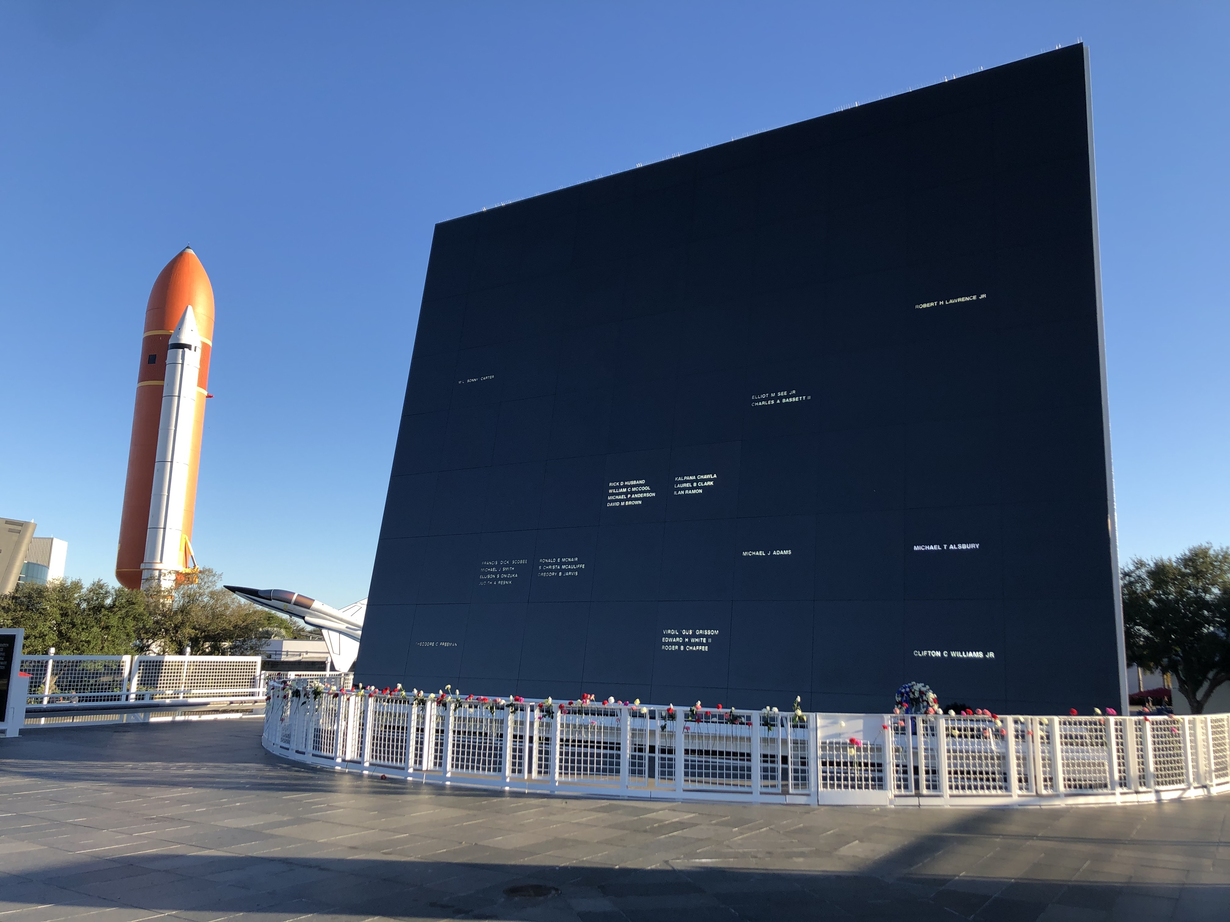 The Space Mirror Memorial on Jan. 25, 2020, including the names of all 25 honorees.